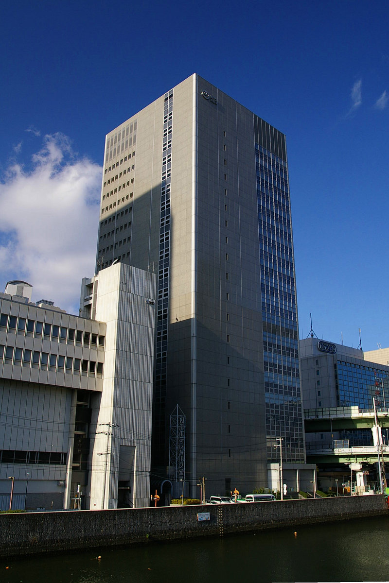 NTT Telepark Dojima, no-2 Bldg, Osaka city, Japan